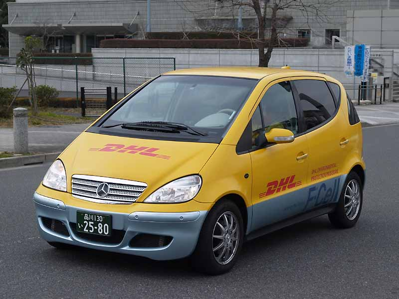 Mercedes-Benz A-class (W168) fuel cell vehicle "F-Cell" operated by DHL Japan, as delivary car in Tokyo. Maximum cargo weight is 150kg. License plate: TKS130 I2580 Place: JHFC Ariake hydrogen station: Koto ward, Tokyo Japan